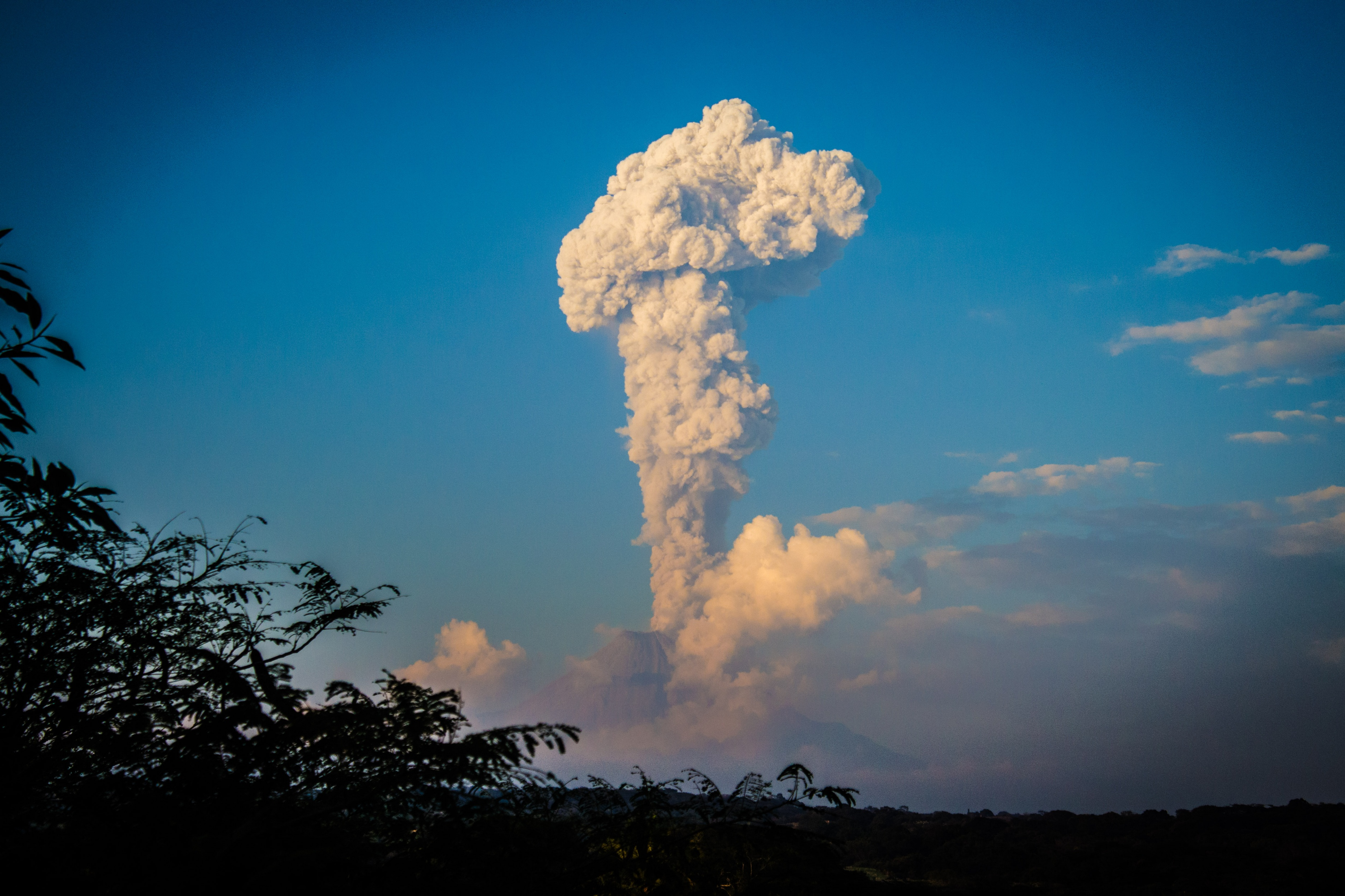 Eruption of the Volcán de Colima, Mexico, 17 Dec. 2016 at the end of the afternoon